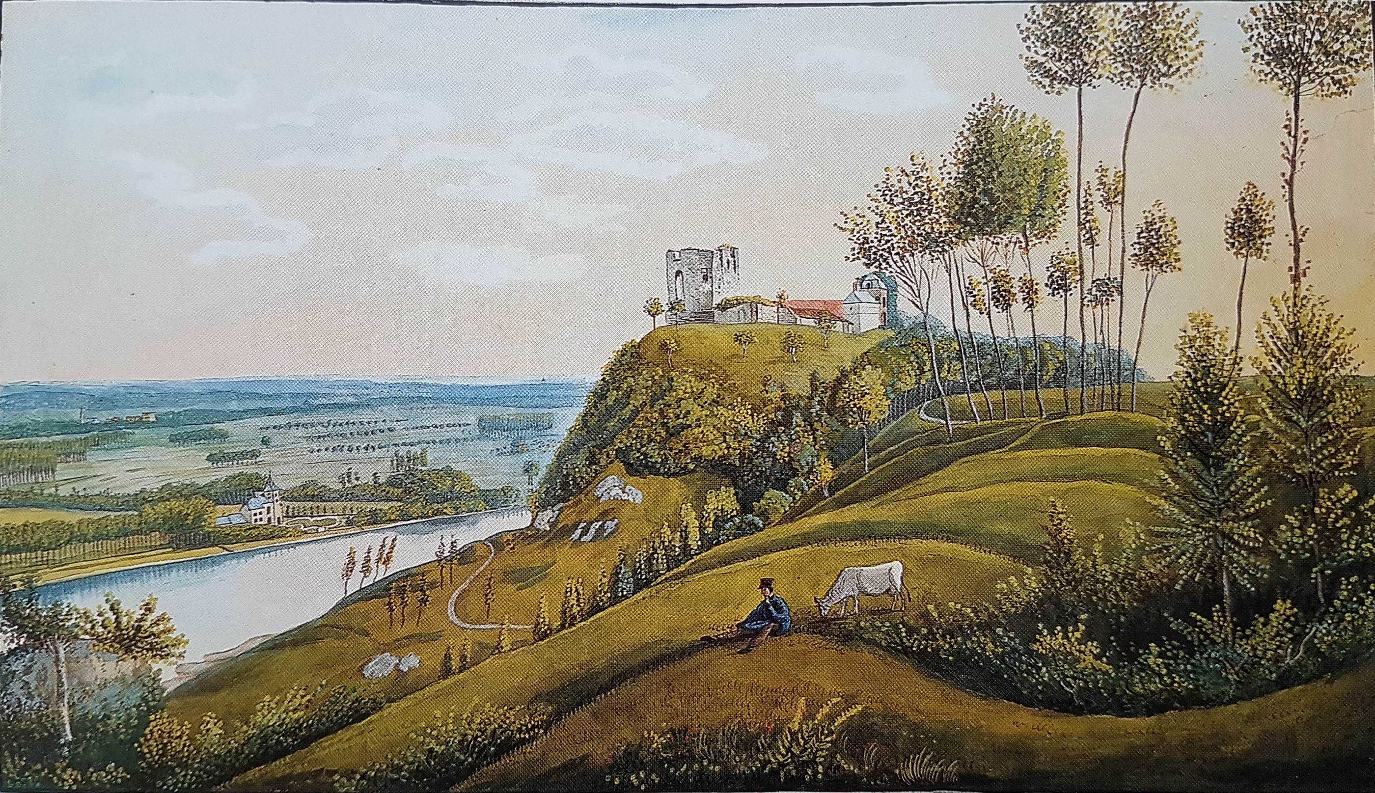 View of the River Meuse and the ruined Lichtenberg Castle on Mount Saint Peter near Maastricht, the Netherlands. Watercolour by Philippe van Gulpen, c 1840.